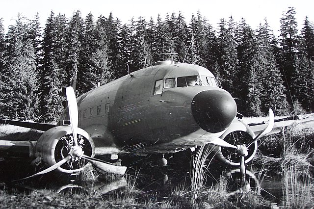 Photograph showing the crashed Douglas EC-47Q 42-24304 at Prince of Wales Island, Alaska. This image or file is a work of a U.S. Air Force Airman or employee, taken or made as part of that person's official duties. As a work of the U.S. federal government, the image or file is in the public domain in the United States.